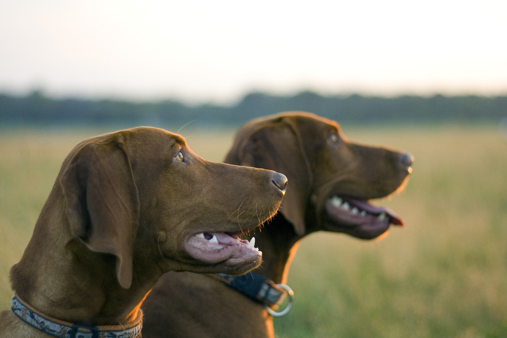 Dog